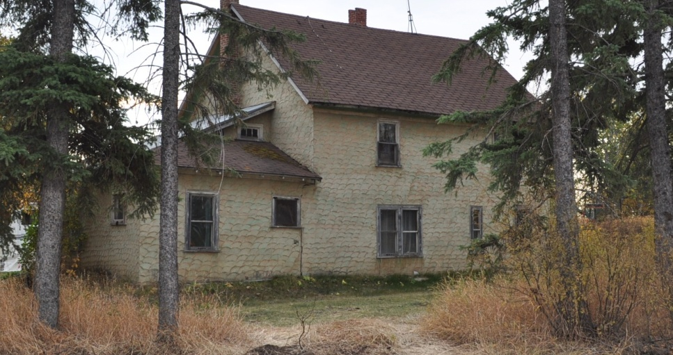 The Ronning Homestead in Valhalla Centre, Alberta, CanadaNorsk bokmål: Huset til Halvor Nilsen Rønning i Valhalla Centre, Alberta, Canada